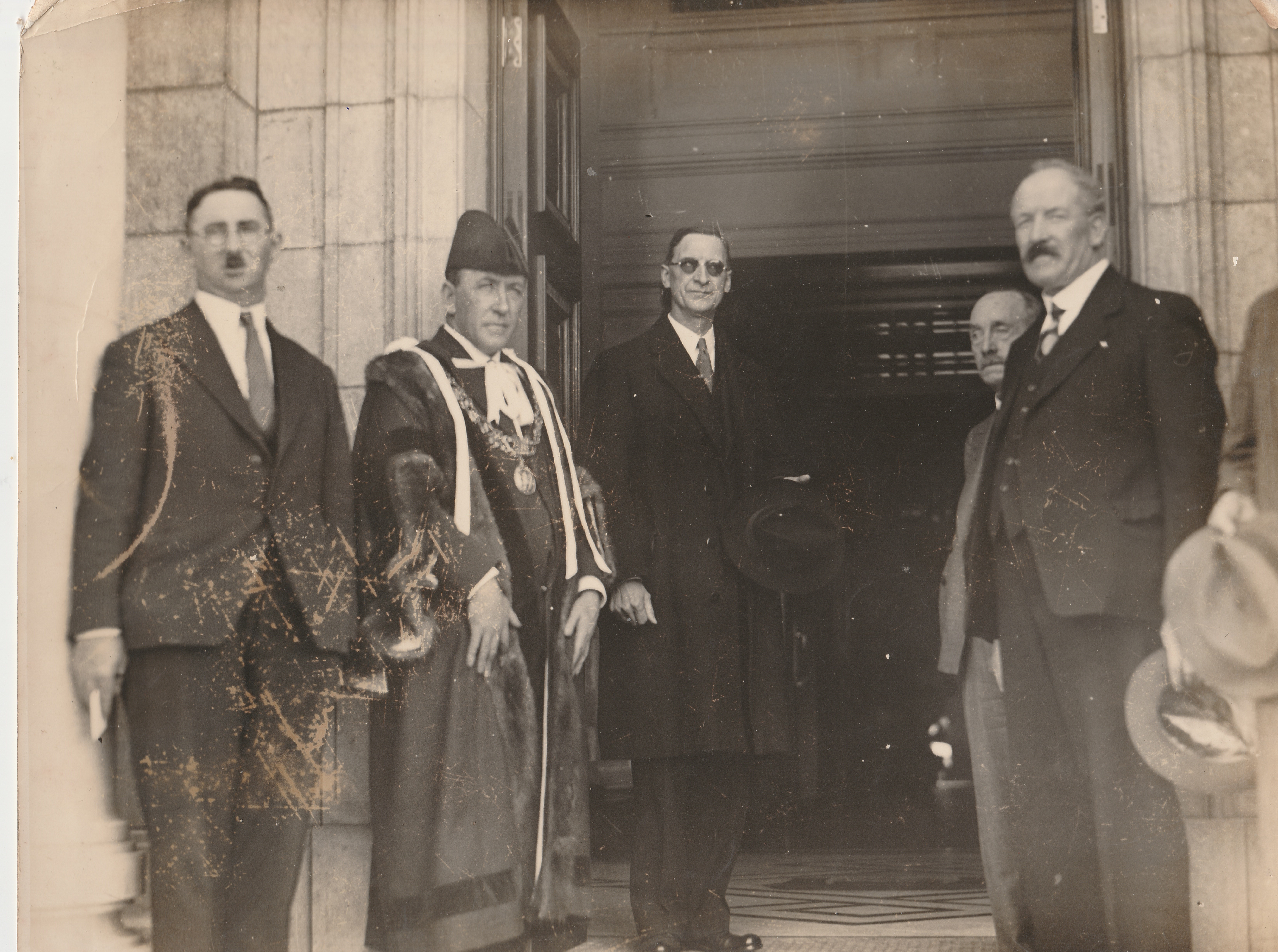 Opening of the new Cork City Hall 8th September 1936